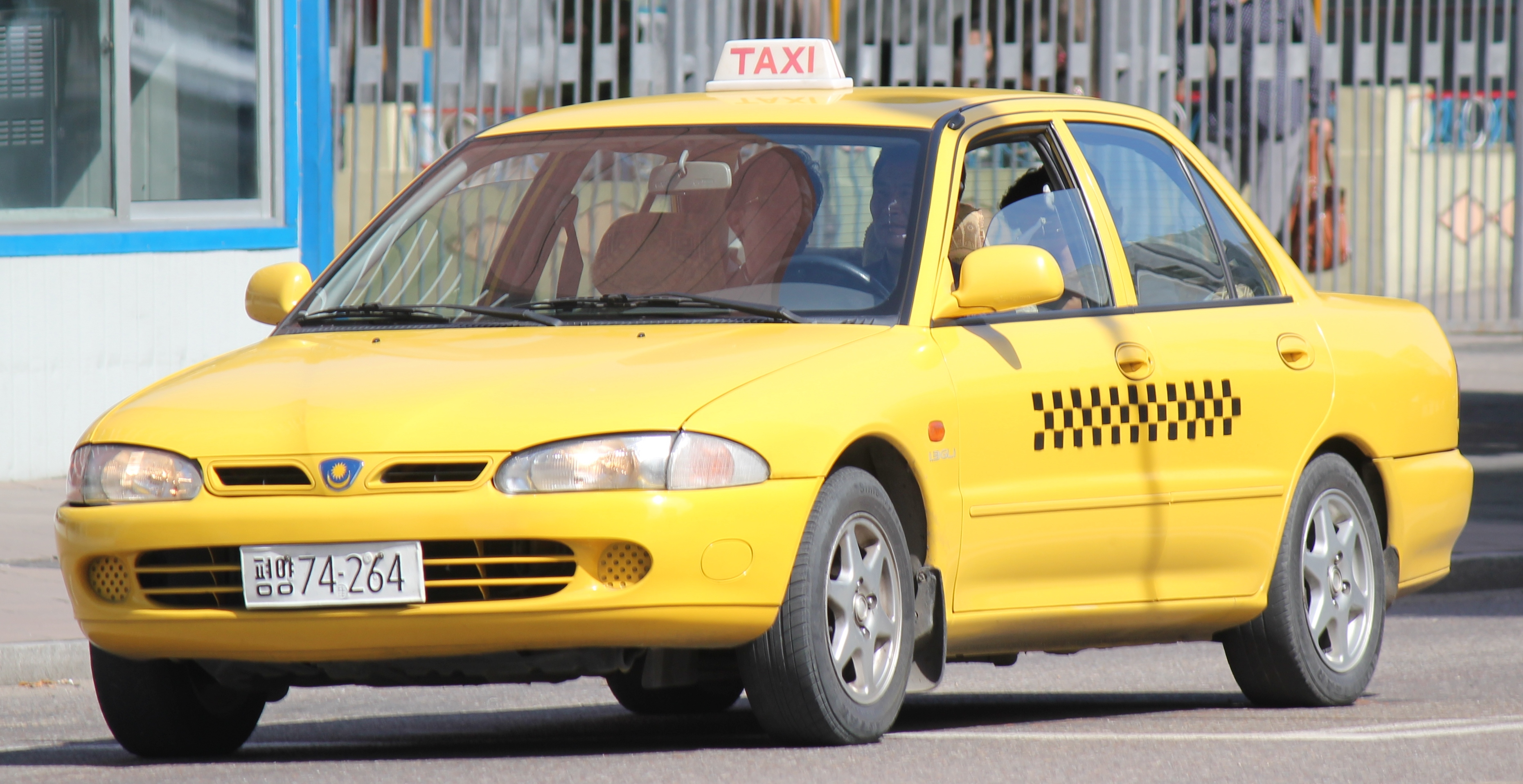 A Proton Wira 1.3 GLi yellow taxi in Pyongyang, North Korea. Note: This is a left-hand drive unit, but it is equipped with the 'Crescent & Star' Proton badge which was then limited to Proton cars sold in their domestic market, Malaysia.